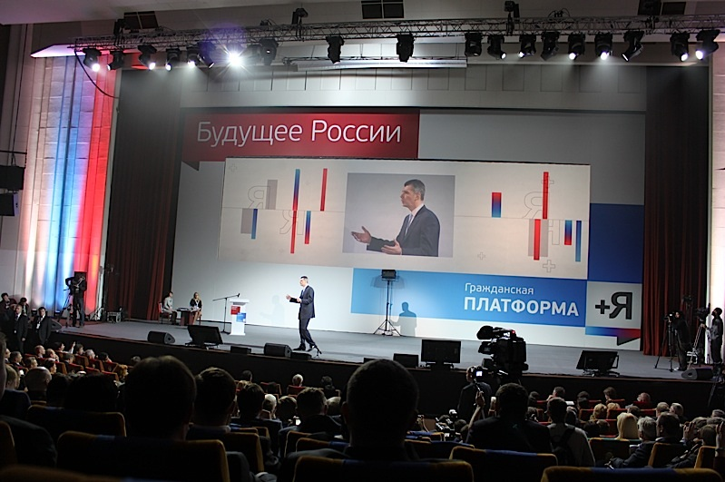 2 Congress of the Party of Civic Platform (Russia), Address by party leader Mikhail Prokhorov